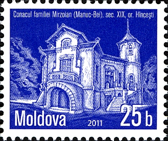 Stamps of Moldova